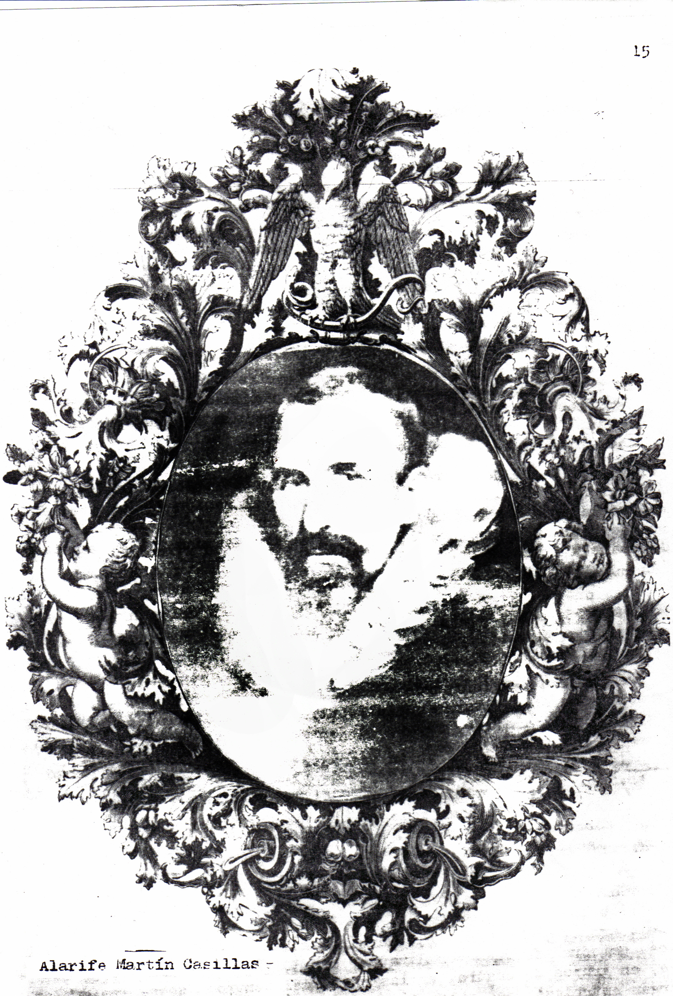 copy of a painting of Martin Casillas